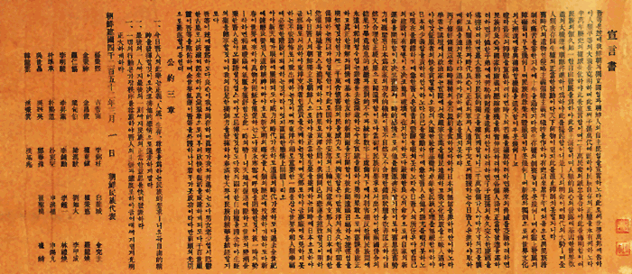 The Proclamation of Korean Independence in Korean